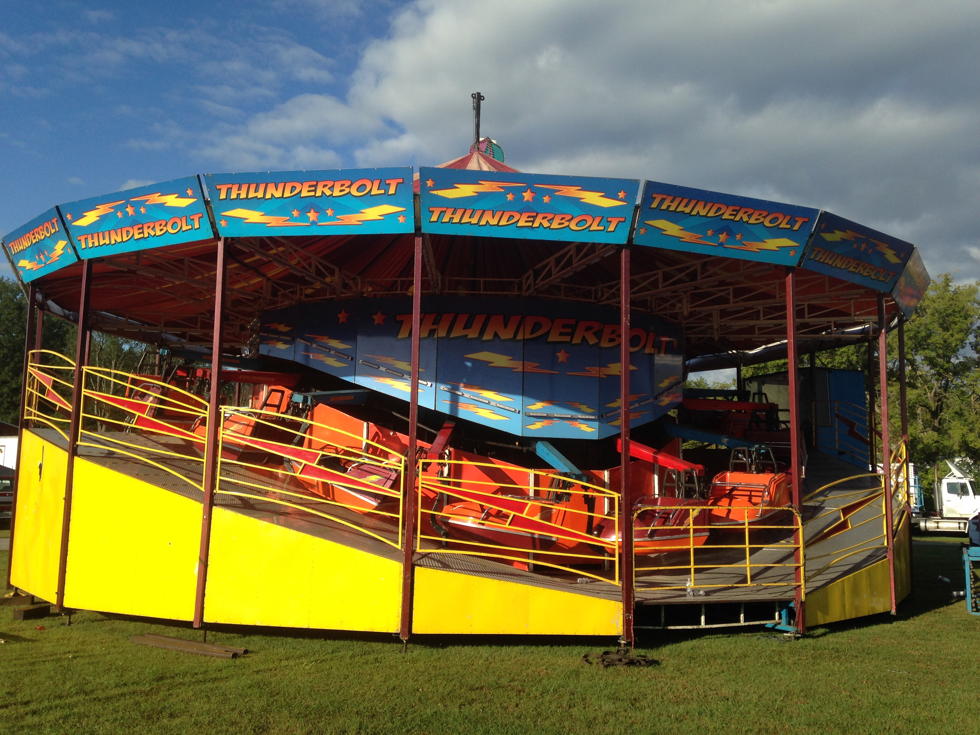 Ride from Coleman Brothers Shows